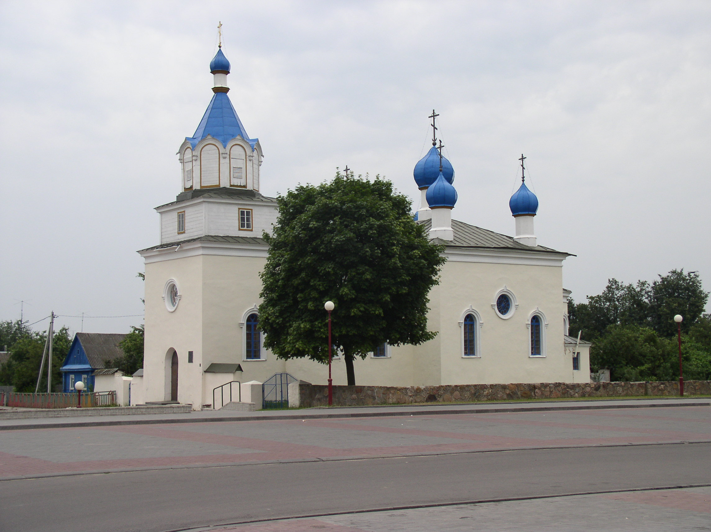 Church of Holy Trinity, Mir, Belarus.